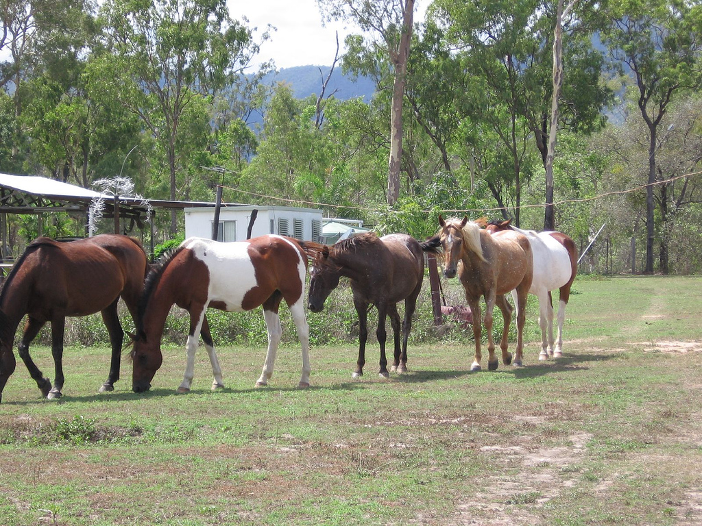 Wild horses (brumbys) for tim n' cathy